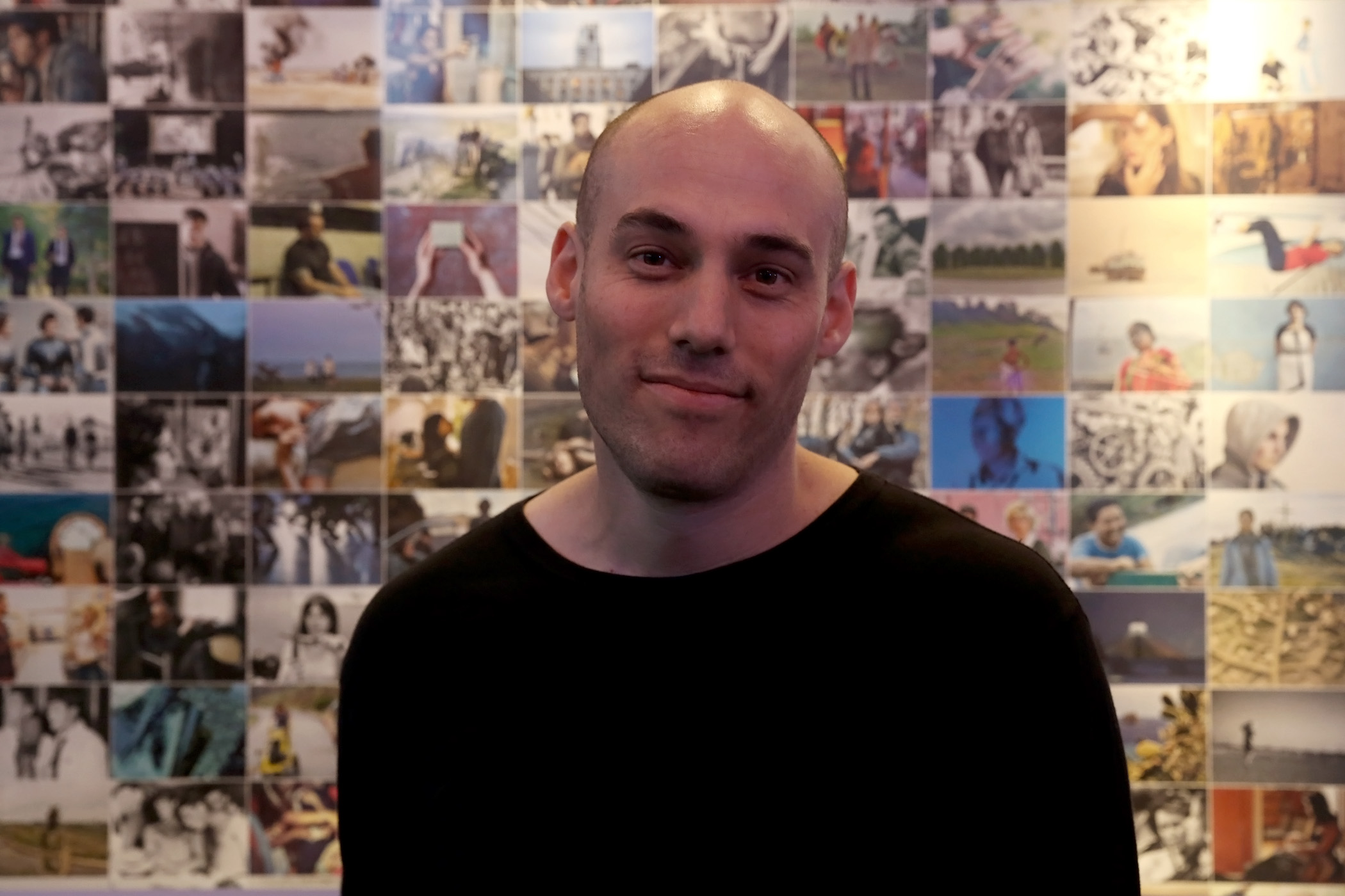 Vienna International Film Festival 2013: Joshua Oppenheimer presenting The Act of Killing (Gartenbaukino, Vienna, Austria).